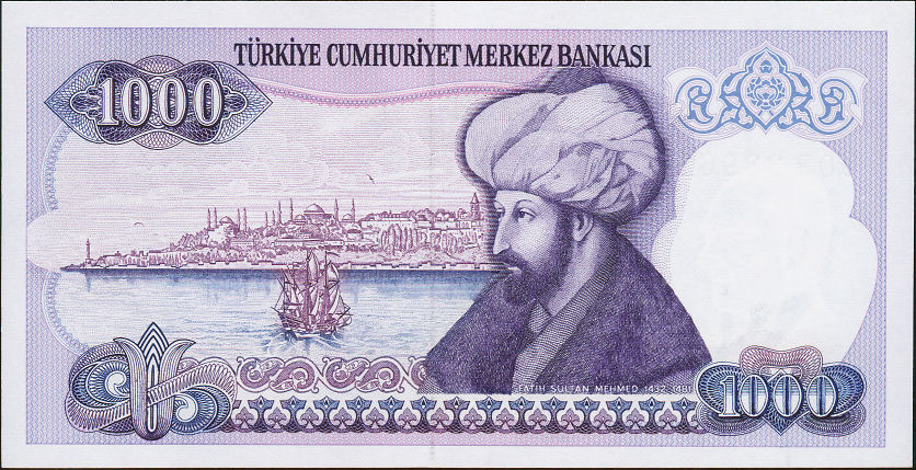 10 TL reverse